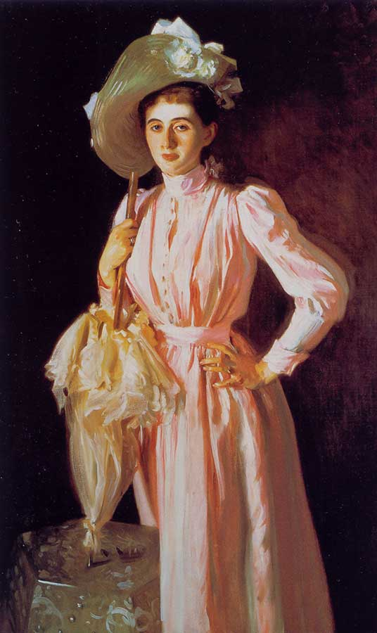 Miss Eleanor Brooks (Mrs. Richard Middlecott Saltonstall) John Singer Sargent -- American painter 1890 Private collection Oil on canvas 154.9 x 78.7 cm Signed upper right ‘John Singer Sargent/1890’ Inscribed on reverse ‘Miss Eleanor Brooks/painted by John Singer Sargent/August 1890’ Jpg: , the Maastricht arts fair